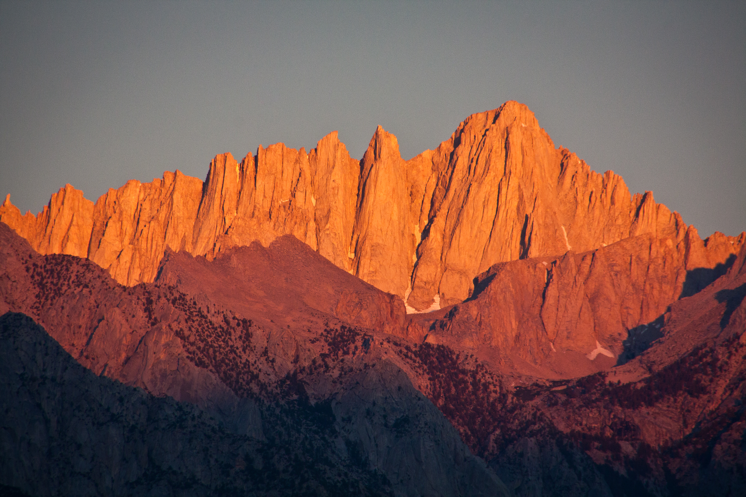 Mount Whitney at sunrise from Lone Pine, CA. August 2011.